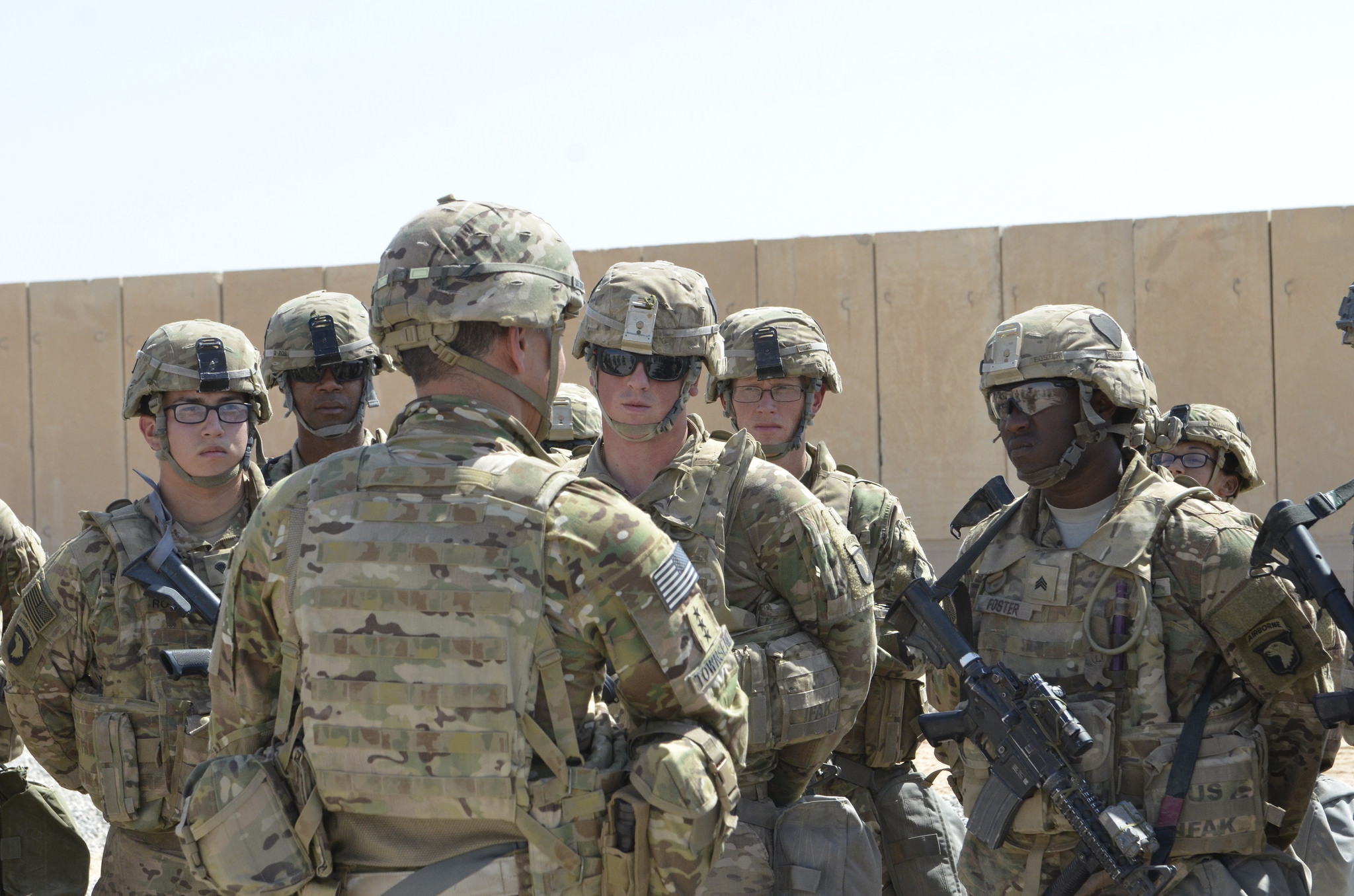 Lt. Gen. Stephen J. Townsend, commander Combined Joint Task Force Operation Inherent Resolve, visits Task Force Strike, 101st Airborne Division (Air Assault) at Qayyarah West Airfield, Iraq. Coalition troops arrived to Qayyarah West Airfield to enable the Iraqi Security Forces to defeat Da'esh by providing logistical, engineering and artillery fires in support of the liberation of Mosul. The mission of Operation Inherent Resolve is to defeat Da’esh (an Arabic acronym for ISIL) in Iraq and Syria by supporting the Government of Iraq with trainers, advisors and fire support, to include aerial strikes and artillery fire. (USMC photo by Capt. Ryan E. Alvis/Released)